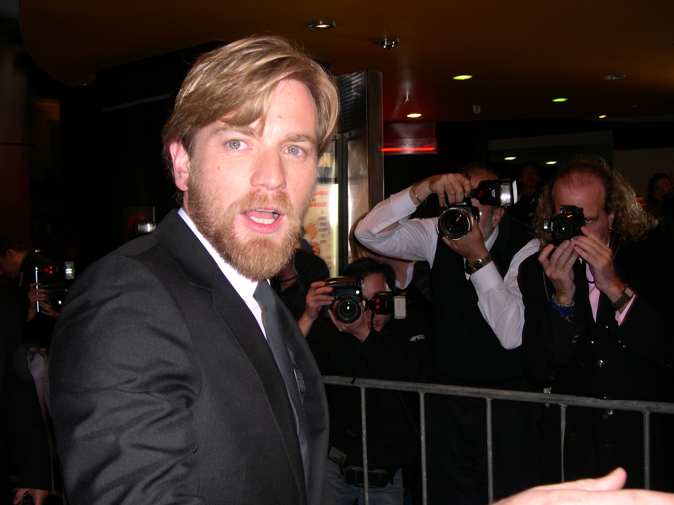 Ewan_McGregor_Premiere_Down_to_love_in_Sydney_2003 Self shot